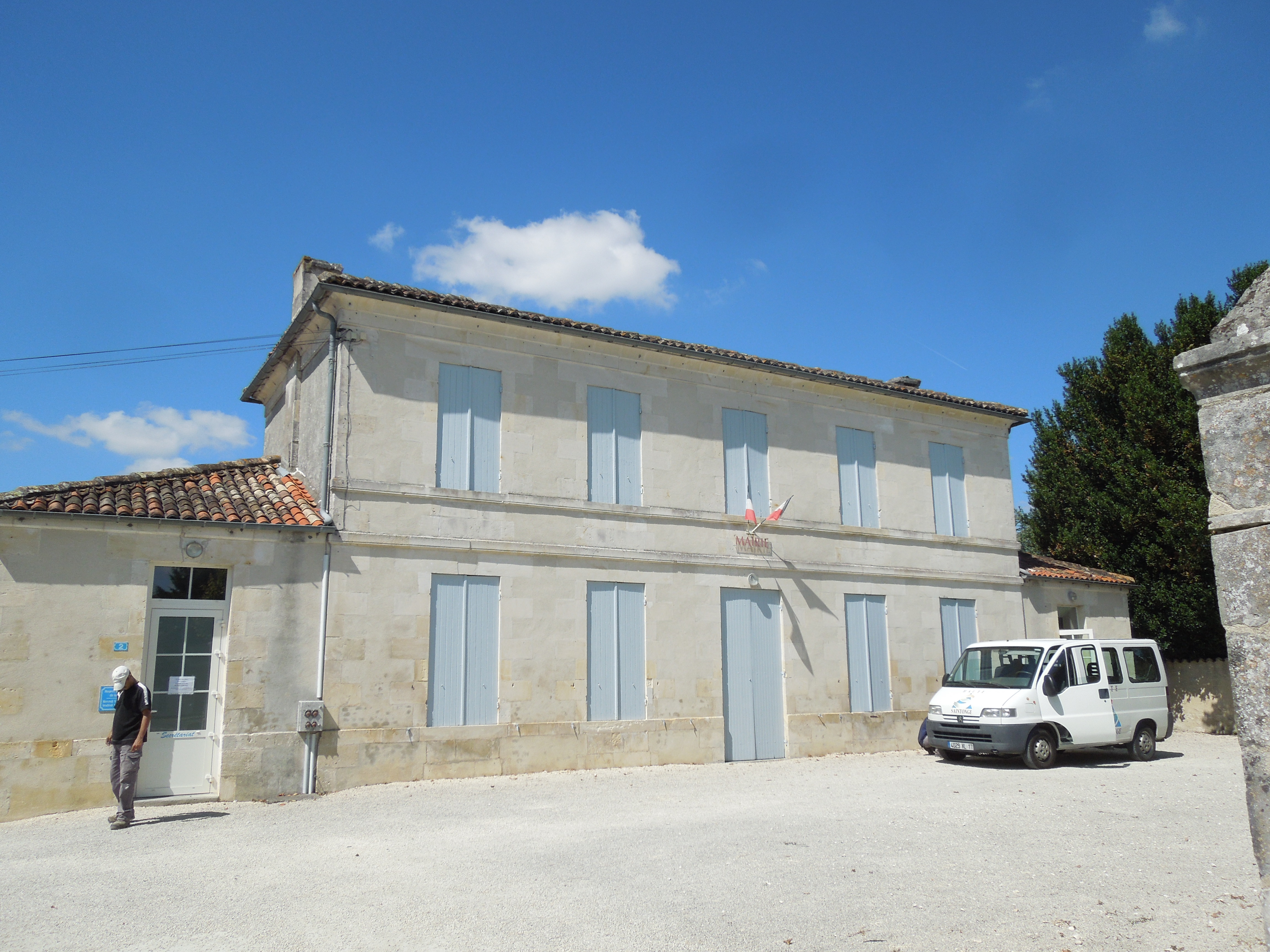 Neuillac, town hall